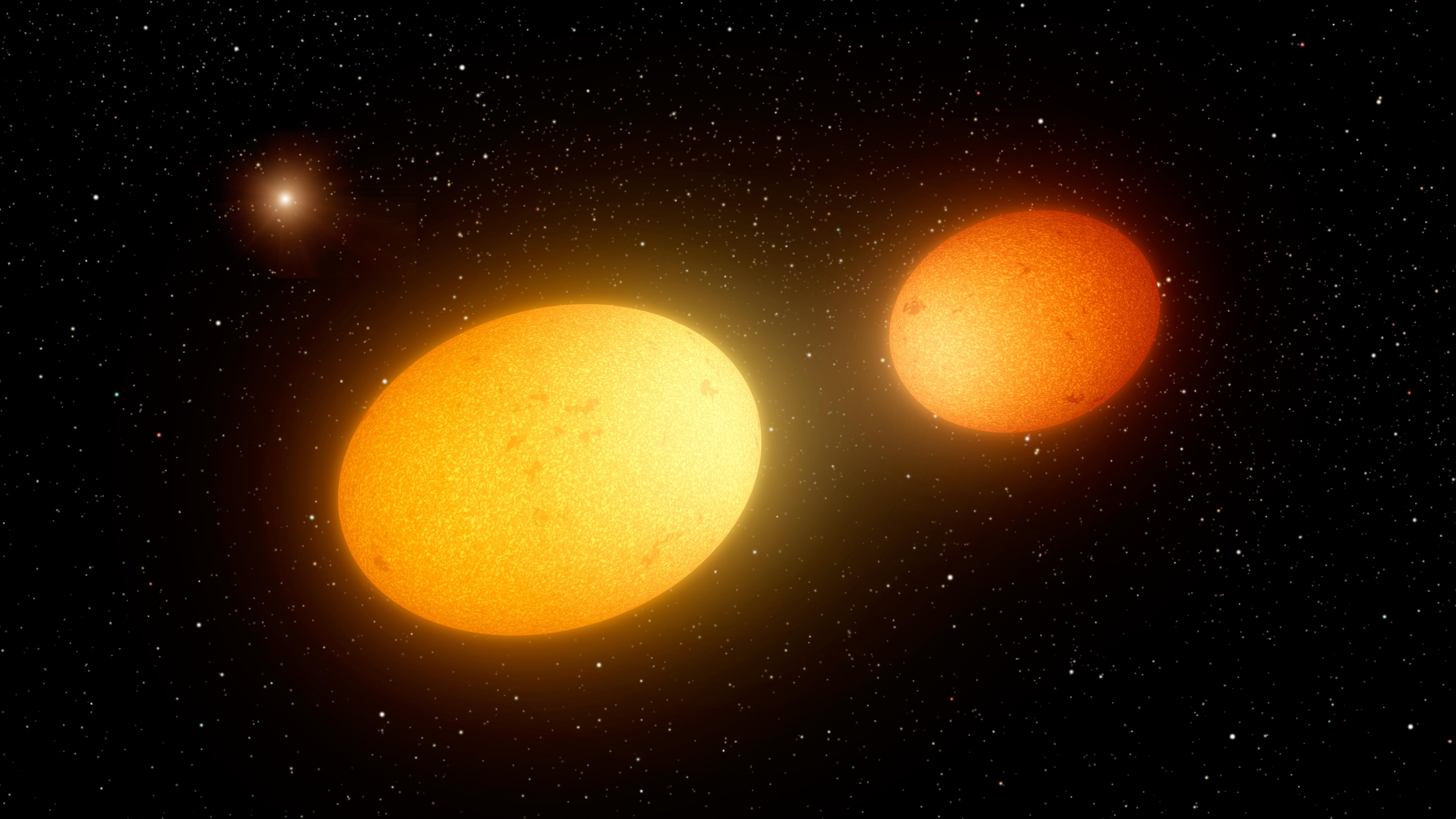 This artist's concept depicts "heartbeat stars," which have been detected by NASA's Kepler Space Telescope and others. The illustration shows two heartbeat stars swerving close to one another in their closest approach along their highly elongated orbits around one another. The mutual gravitation of the two stars would cause the stars themselves to become slightly ellipsoidal in shape.